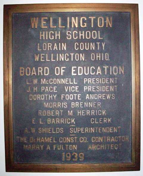 Wellington High School (McCormick Middle School) - Auditorium Plaque